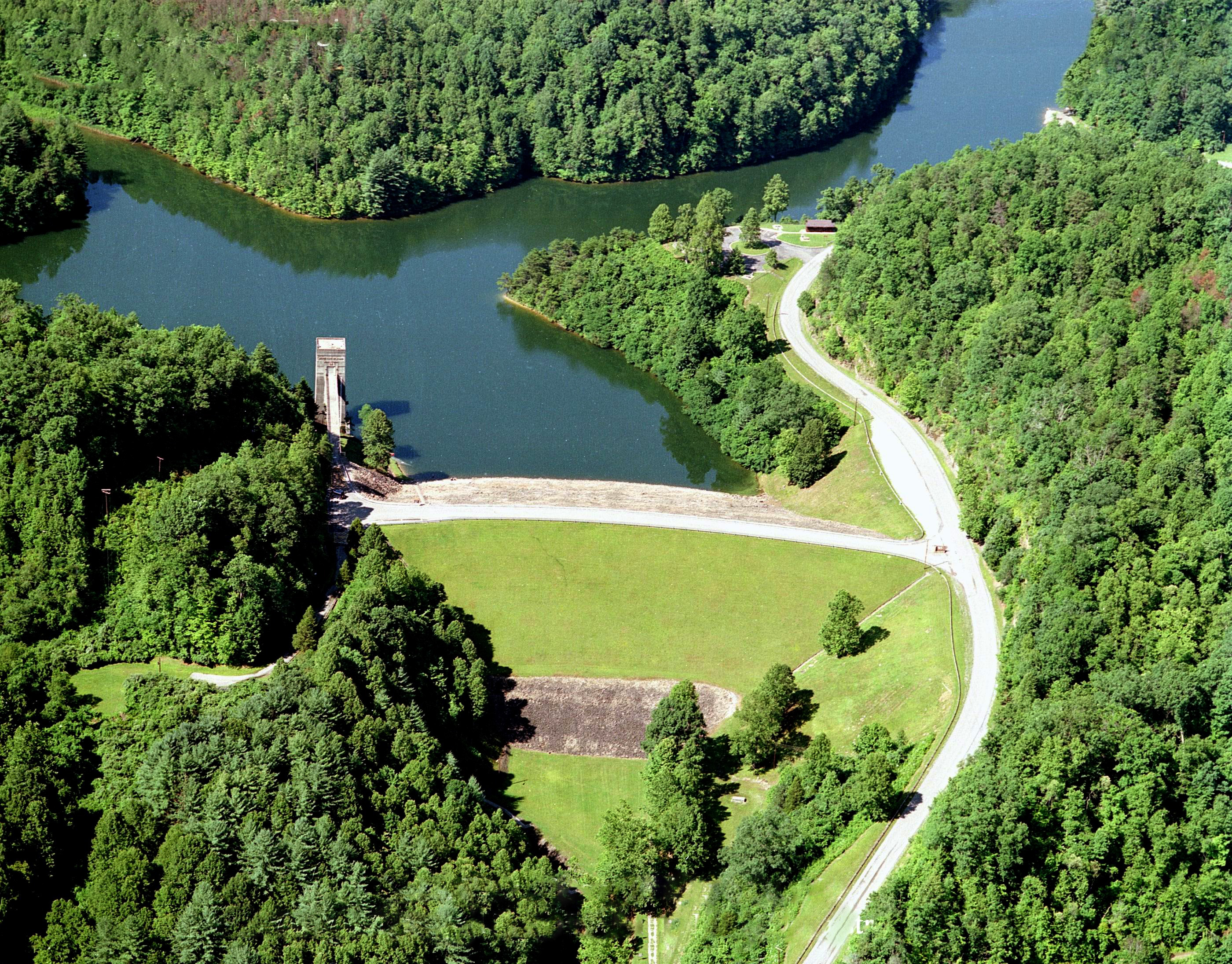 Aerial photo of North Fork of Pound River Lake and Dam, Downstream View